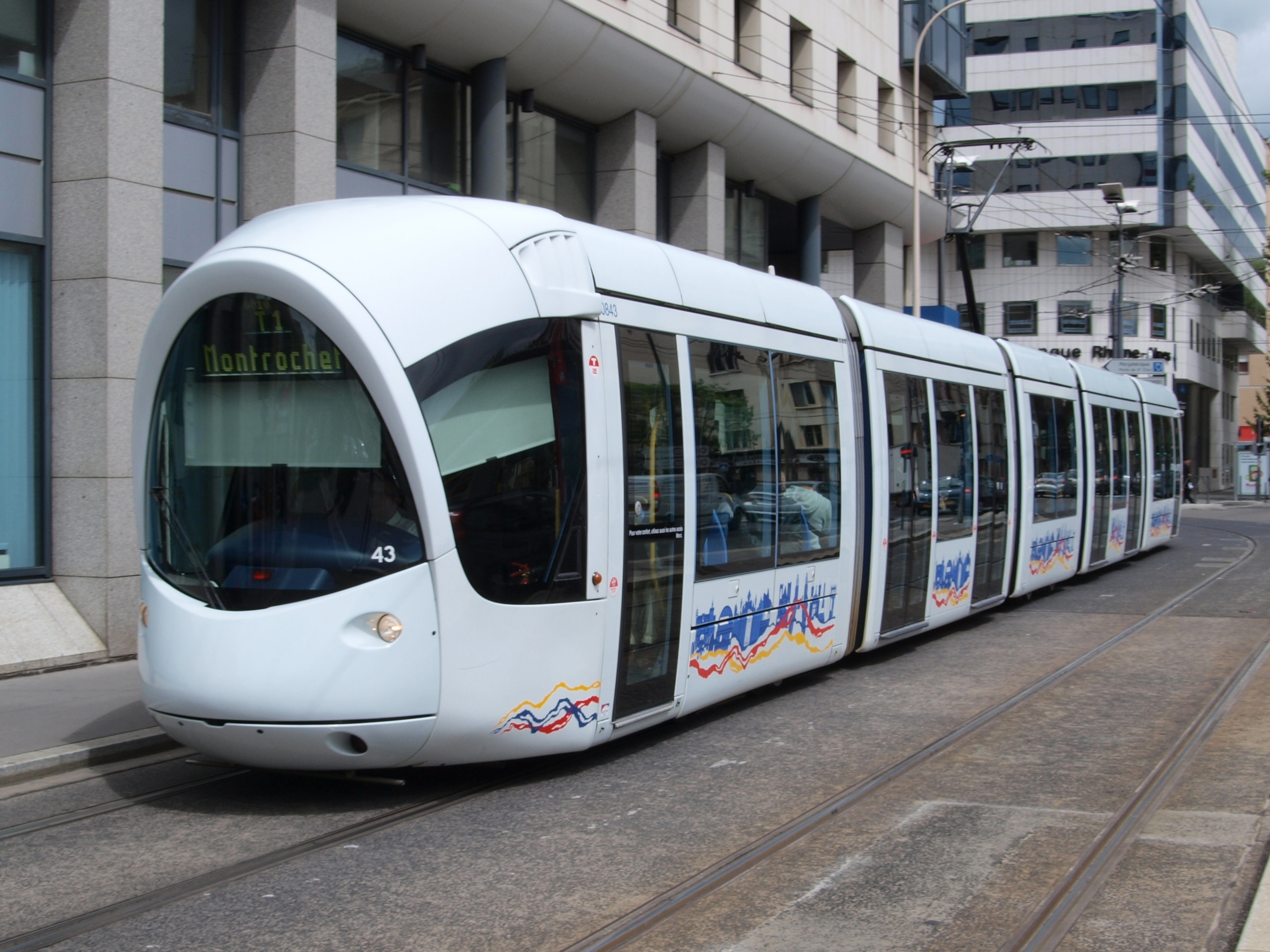 Tram car 43, Line T1 towards Montrochet at Lyon